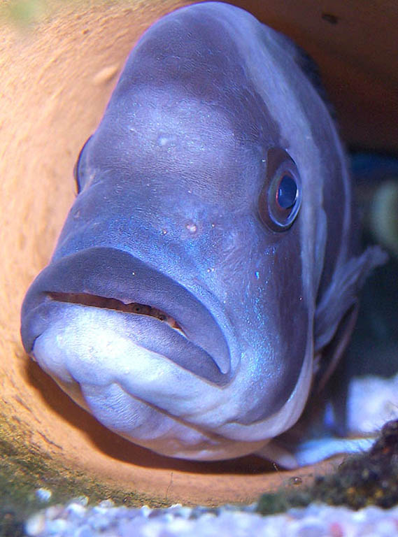 Cyphotilapia frontosa with fry in mouth Photo by: Matthew Miller Category:Cichlid images